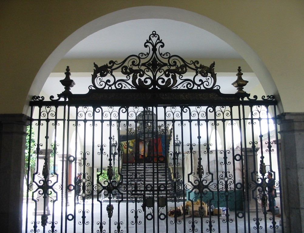 Principal iron door of the Carondelet's Palace, in Quito